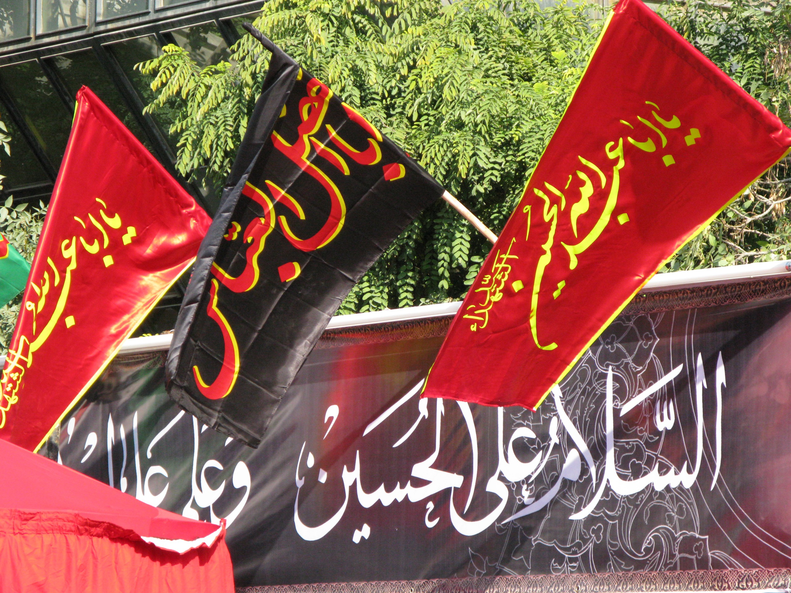 Mourning of Muharram is held in majority of cities and villages in Iran by Shia Muslims annually. Although all sort of ceremonies are performed for Imam Hossein and his followers martyrdom remembrance, they have different styles and rules referring to various cultures.